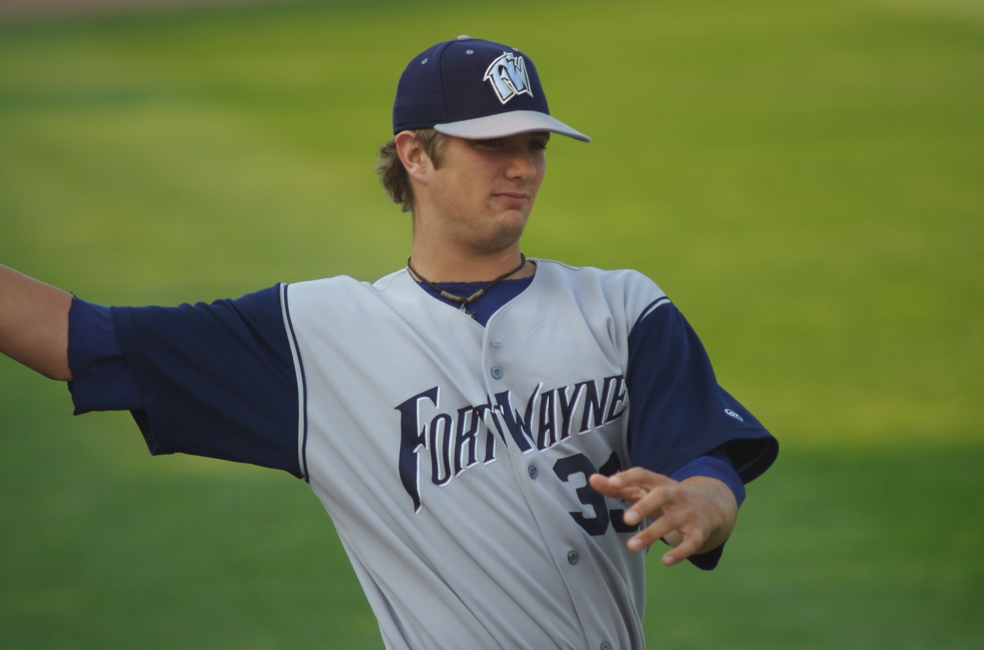 Cory Luebke of the Fort Wayne Wizards.